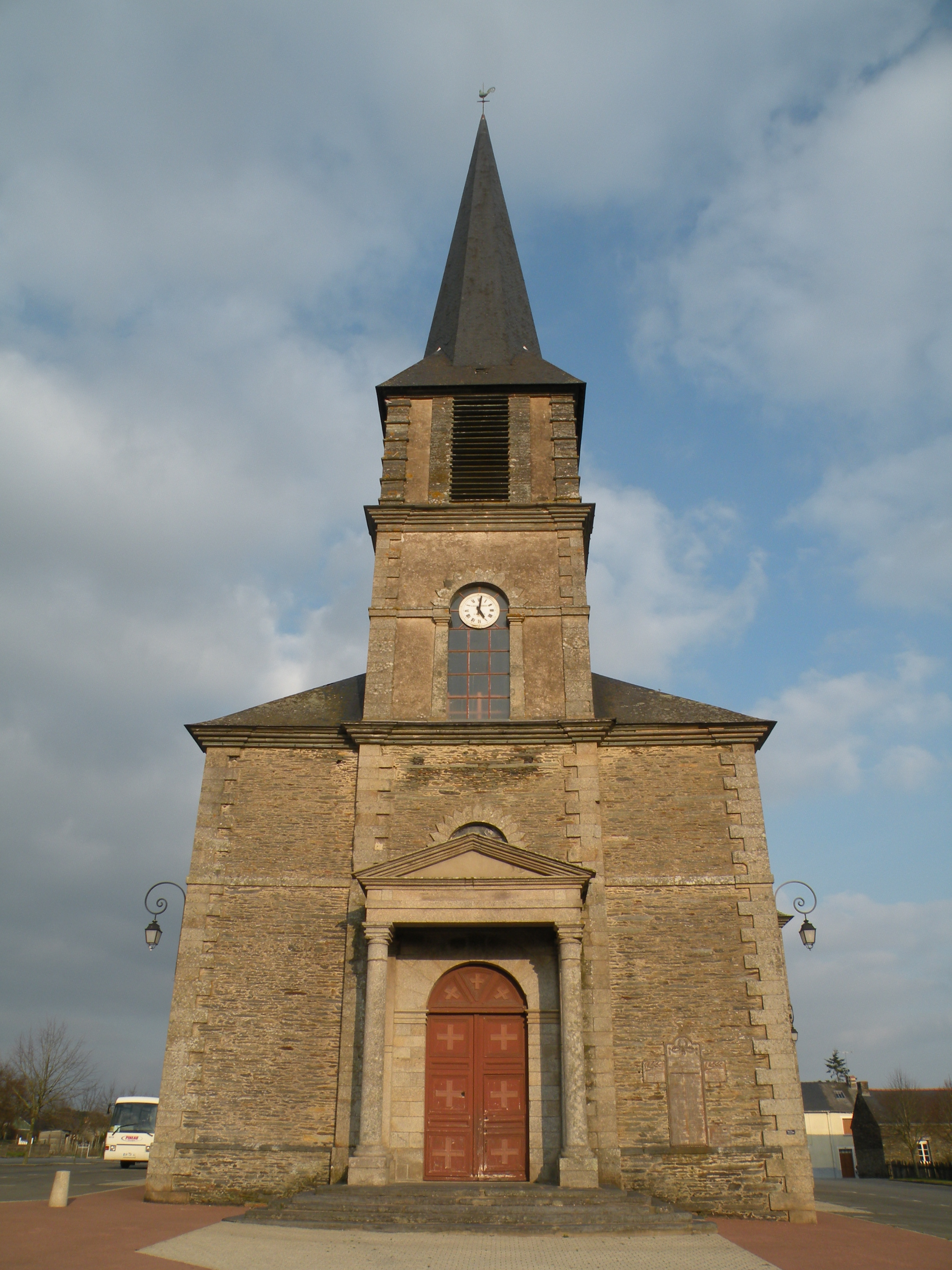 Church of Sainte-Anne-sur-Vilaine.